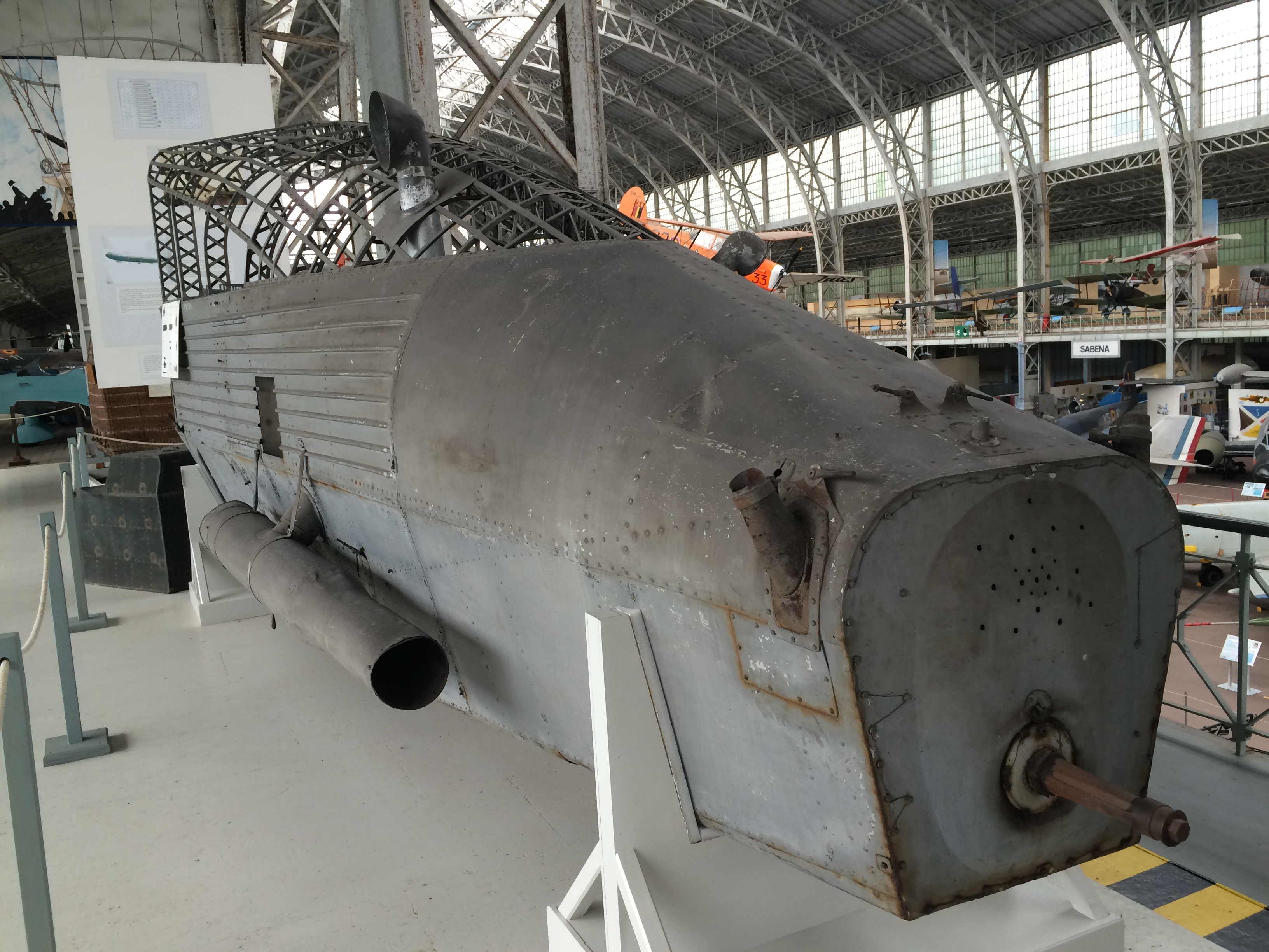 Nacelle of a German Zeppelin L-30. 1916. Royal Military Museum, Brussels. This is a file created at the museum: Royal Museum of the Armed Forces and of Military History in Brussels